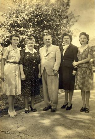 geremia lunardelli, with wife and three daughters.